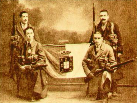 royalist soldiers during the restoration of the Northern monarchy